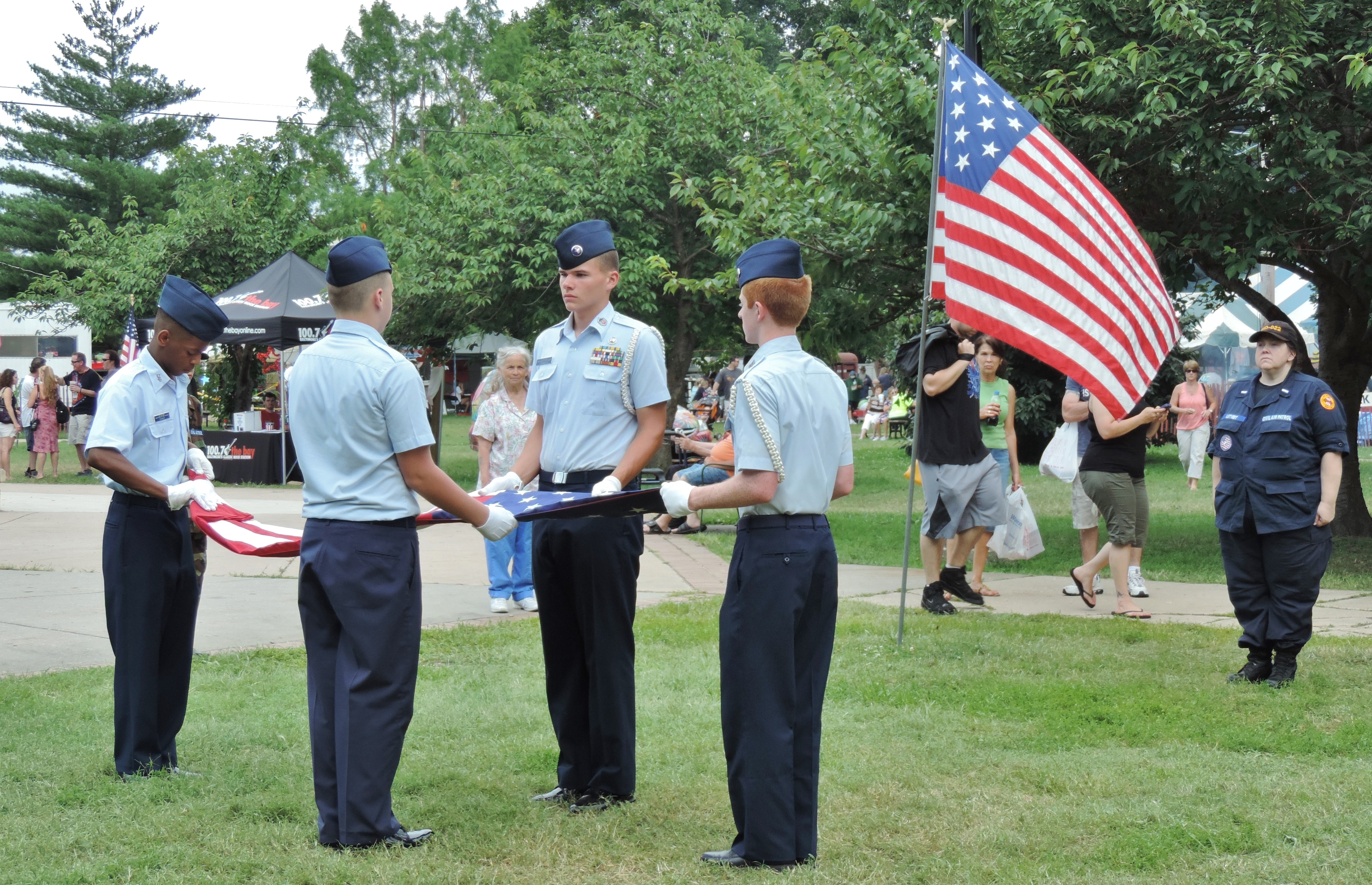 Civil Air Patrol cadets fold the American flag at the 2013 Dundalk Heritage Fair in Maryland. The annual, summer holiday time, Heritage Fair is a World Class Venue for outdoor concerts; it also has - all day for 3 days - great: fun, food, crafts shopping, community and local history booths, some carnival rides and games, and more. Go early and stay late, in tree shaded and grass carpeted Dundalk Heritage Park.